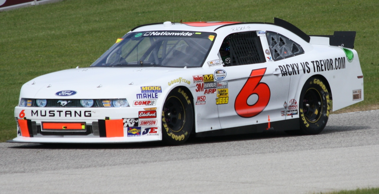 NASCAR driver Ricky Stenhouse, Jr. racing his stock car at Road America at the 2011 Bucyros 200 Nationwide Series race.